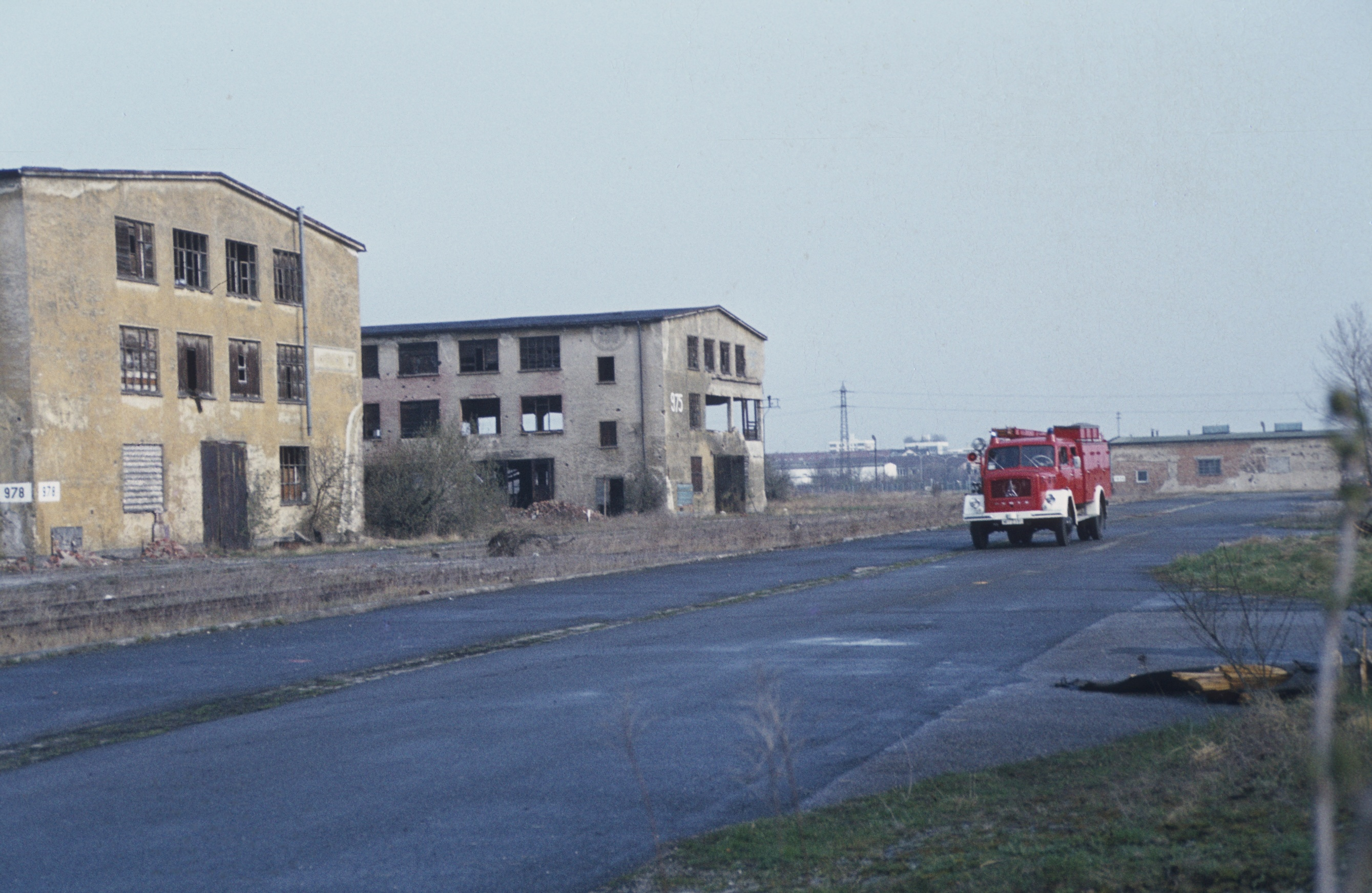 Drill of the Munich disaster response units at Alabama-Depot shortly before its final demolition. The scenario was an air crash.